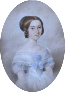 Pastel portrait of a young woman, Mademoiselle Mallet, by French artist Angélique Mezzara